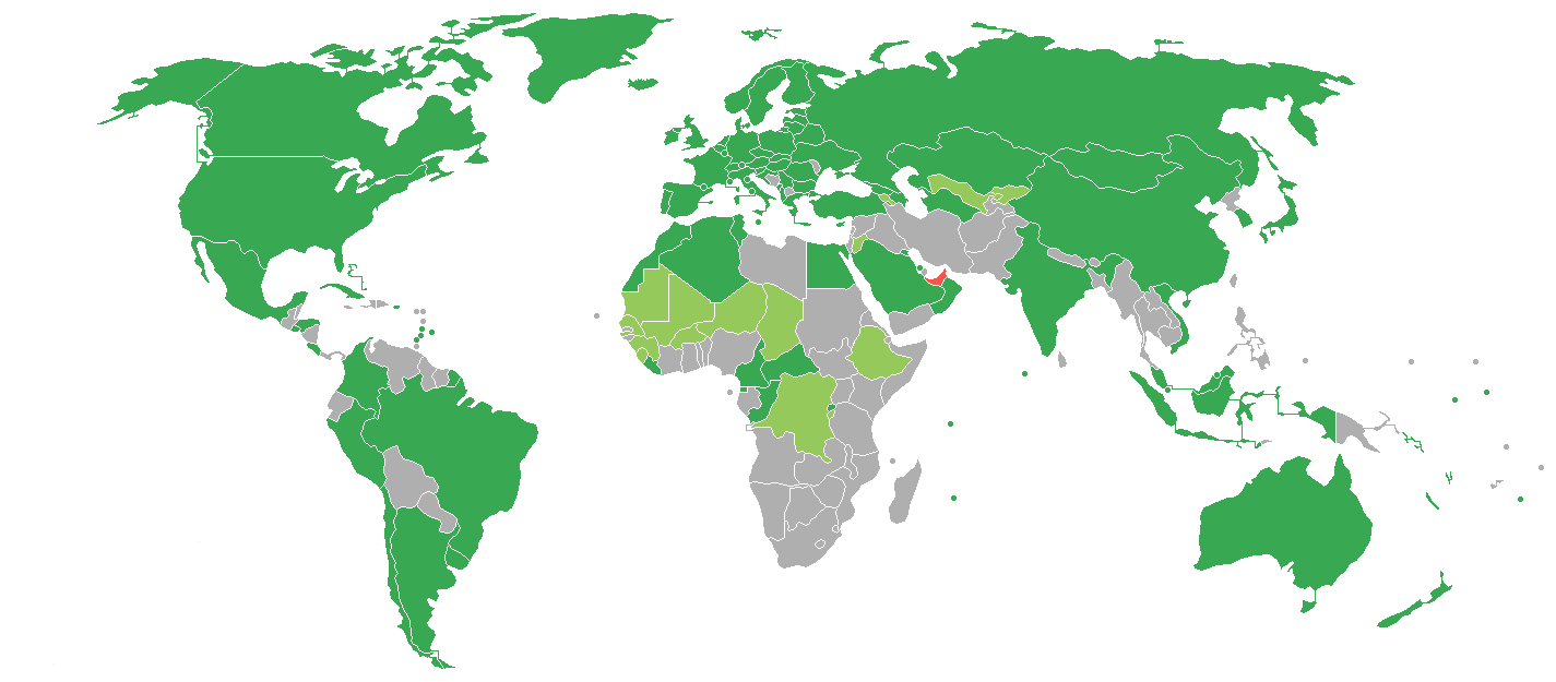 Visa policy of Indonesia for holders of diplomatic or service category passports United Arab Emirates Visa free or free visa on arrival for diplomatic and service category passports Visa free or free visa on arrival for diplomatic passports